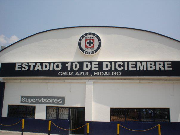 Estadio 10 de Diciembre